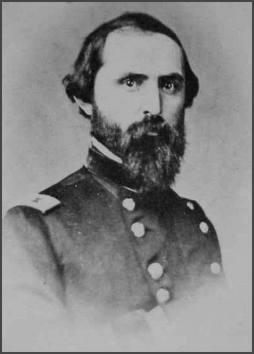 photo of William W. Burns (1825-1892)